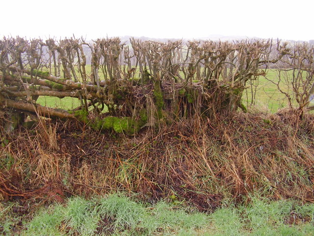 Old pleached hedge The solid base of the hedge indicates that the hedge has been here a very long time and possibly pleached repeatedly.